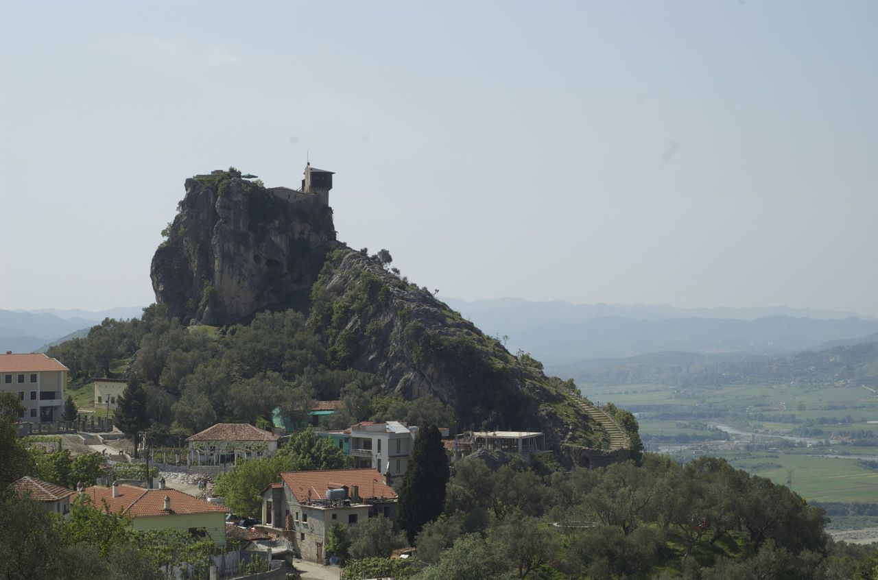 Petrela Castle, Albania